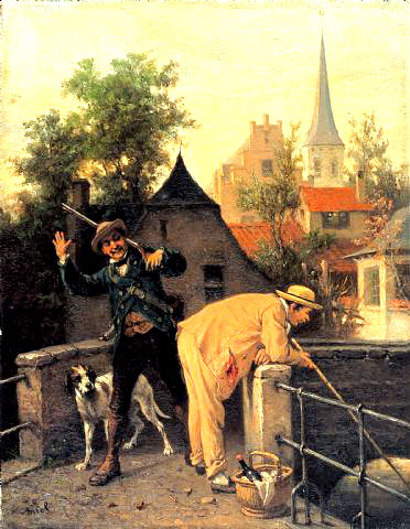 What an opportunity by Jan David Col